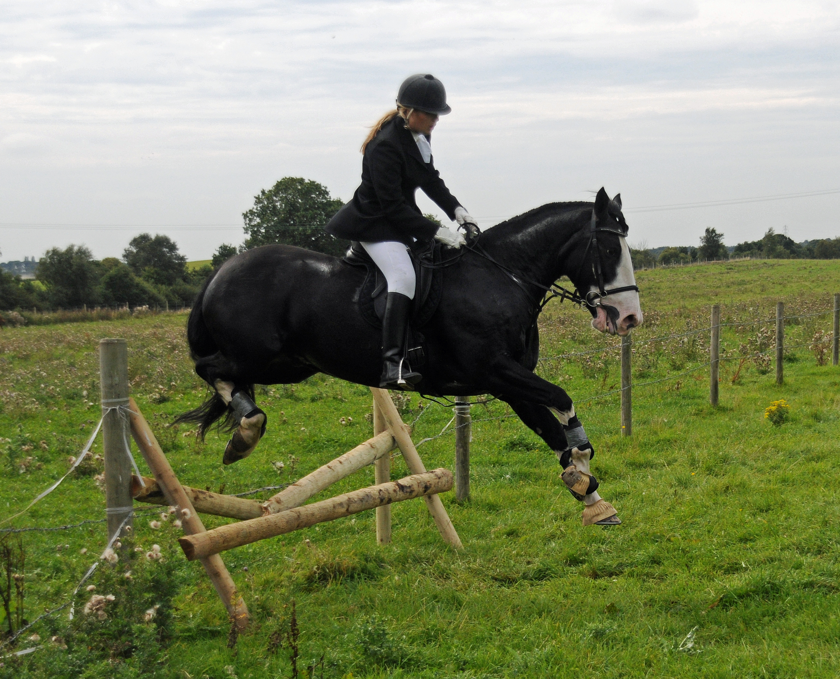 Jumping a pre-arranged fence on trail